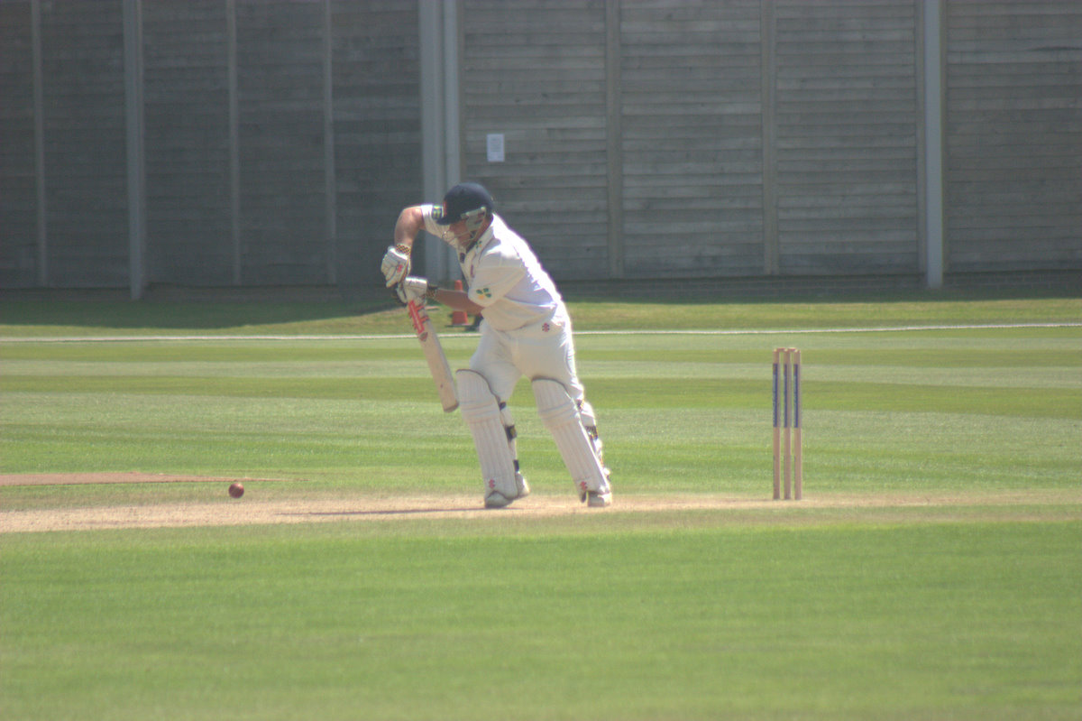 Matthew Walker playing for Essex against Cambridge UCCE at Fenner's cricket ground in Cambridge on 13 June 2009.